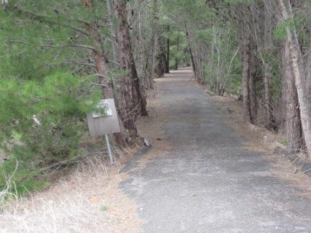 Northern end of the Rattler Rail Trail at Auburn, South Australia. Surrounded by pine trees, planted for the original railway line.